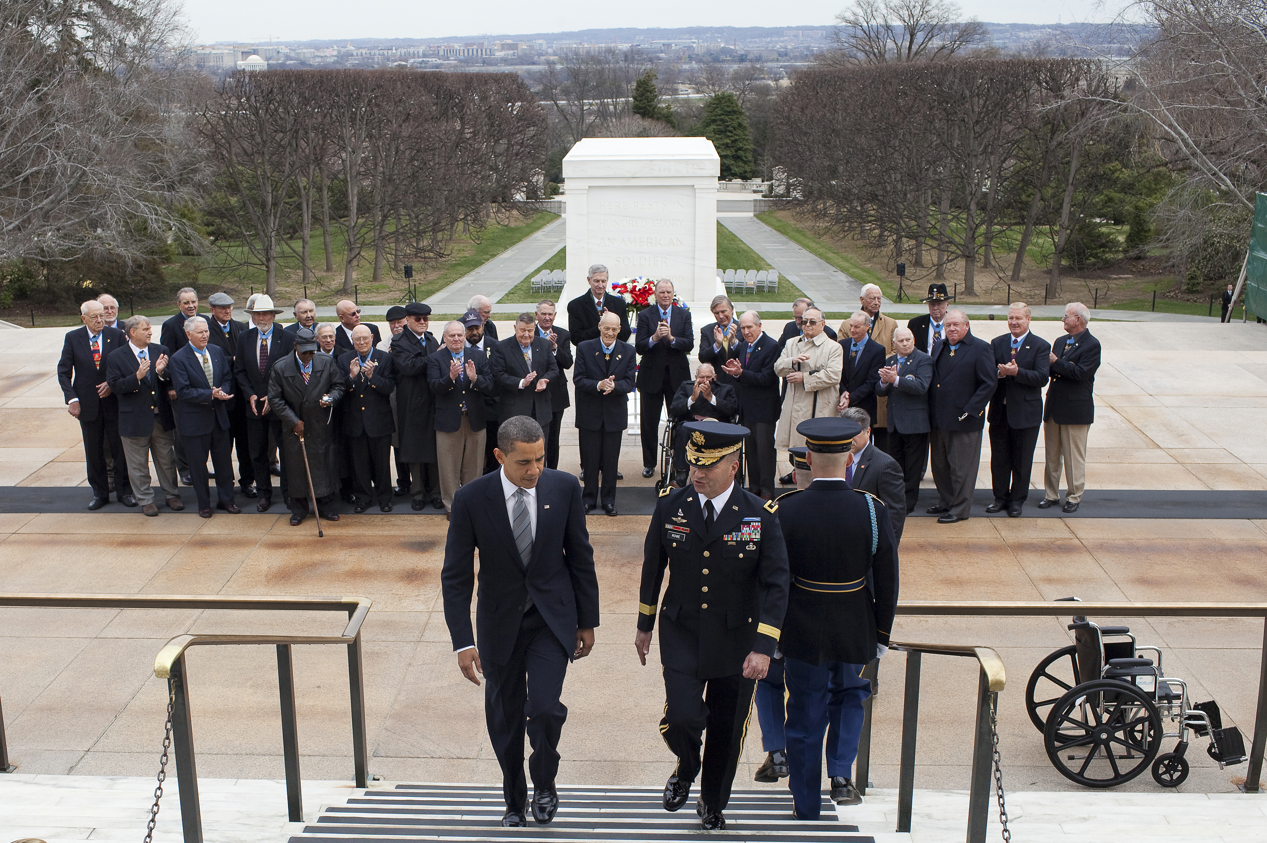 With the Tomb of the Unknowns, Arlington National Cemetery and the city of Washington in the background, President Barack Obama concludes ceremonies Wednesday, March 25, 2009, at the National Medal of Honor Day at the military cemetery. Medal of Honor recipients applaud after laying a wreath at the tomb in Arlington, Va.